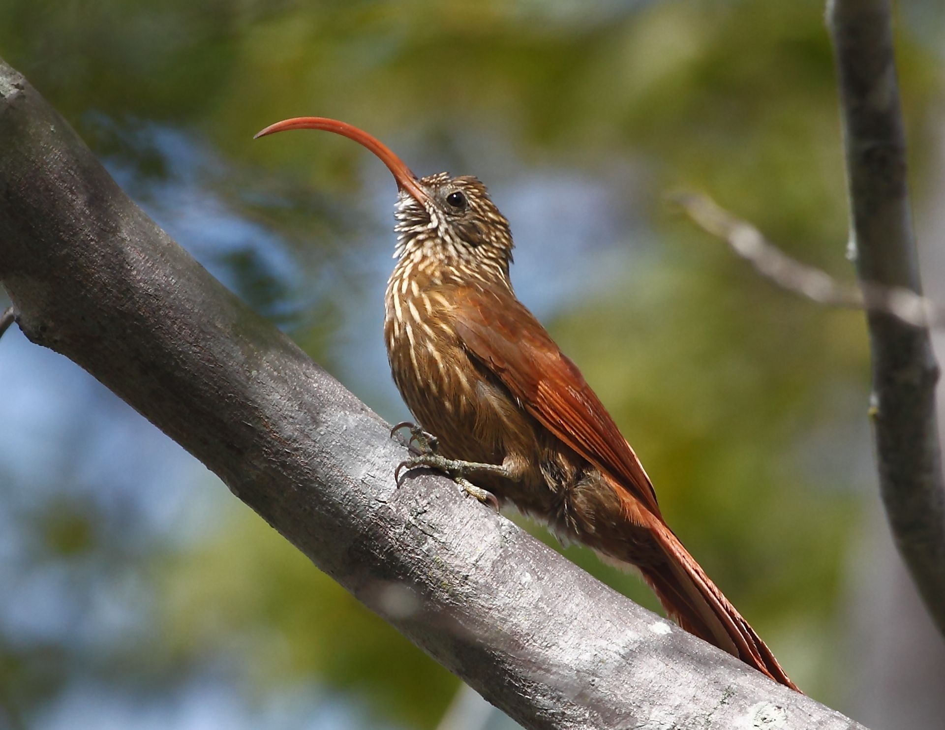 Red-billed Scythebill (major); Araripe, Ceará, Brazil